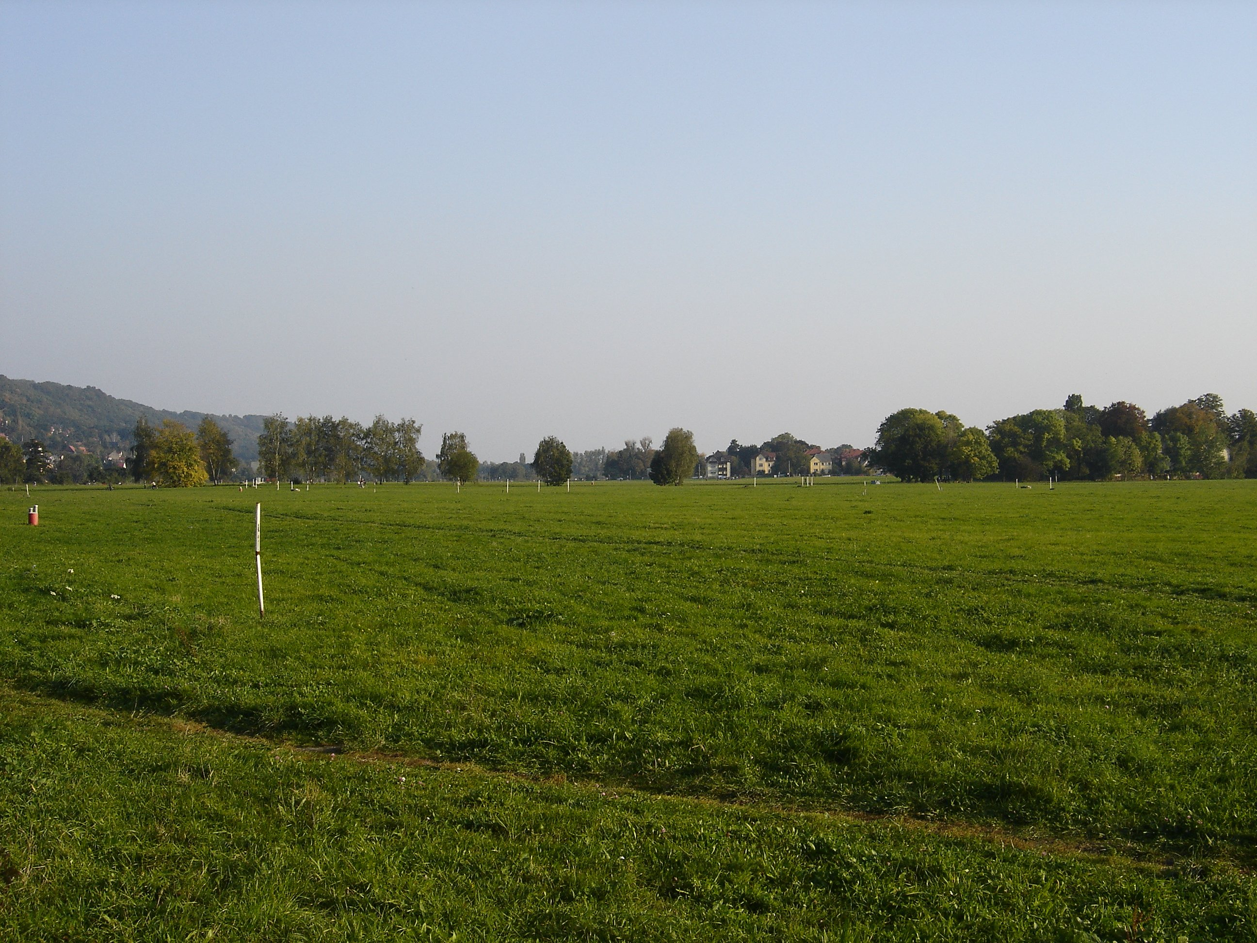 Elbwiesen and water protection area in Dresden-Tolkewitz